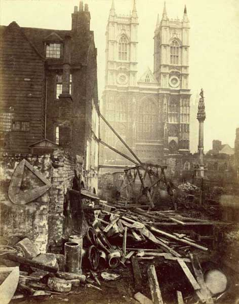 Construction of the Metropolitan District Railway circa 1866. View from Tothill Street towards Westminster Abbey with Lord Raglan's memorial on a column.